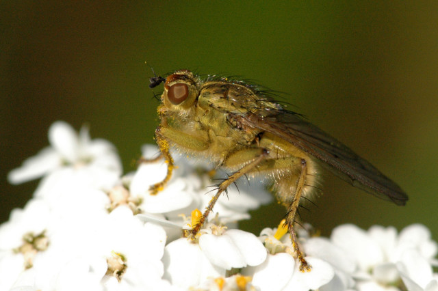 Picture taken in Commanster, Belgian High Ardennes . Species: female Scathophaga stercoraria